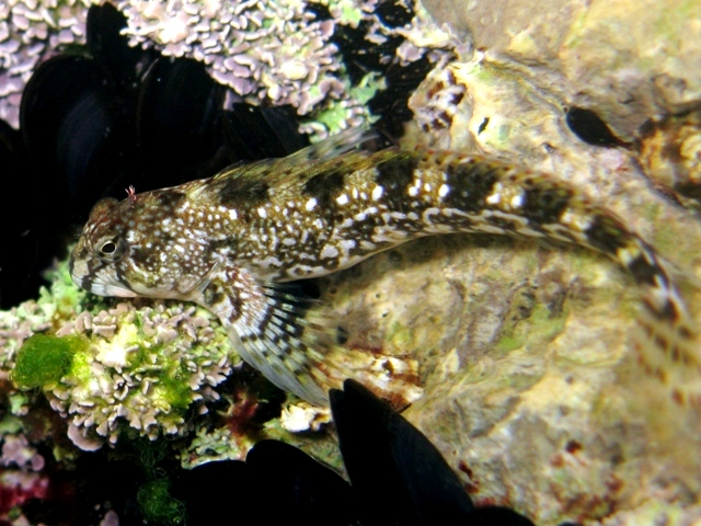 Coryphoblennius galerita photographed in Cres island sea (Croatia).